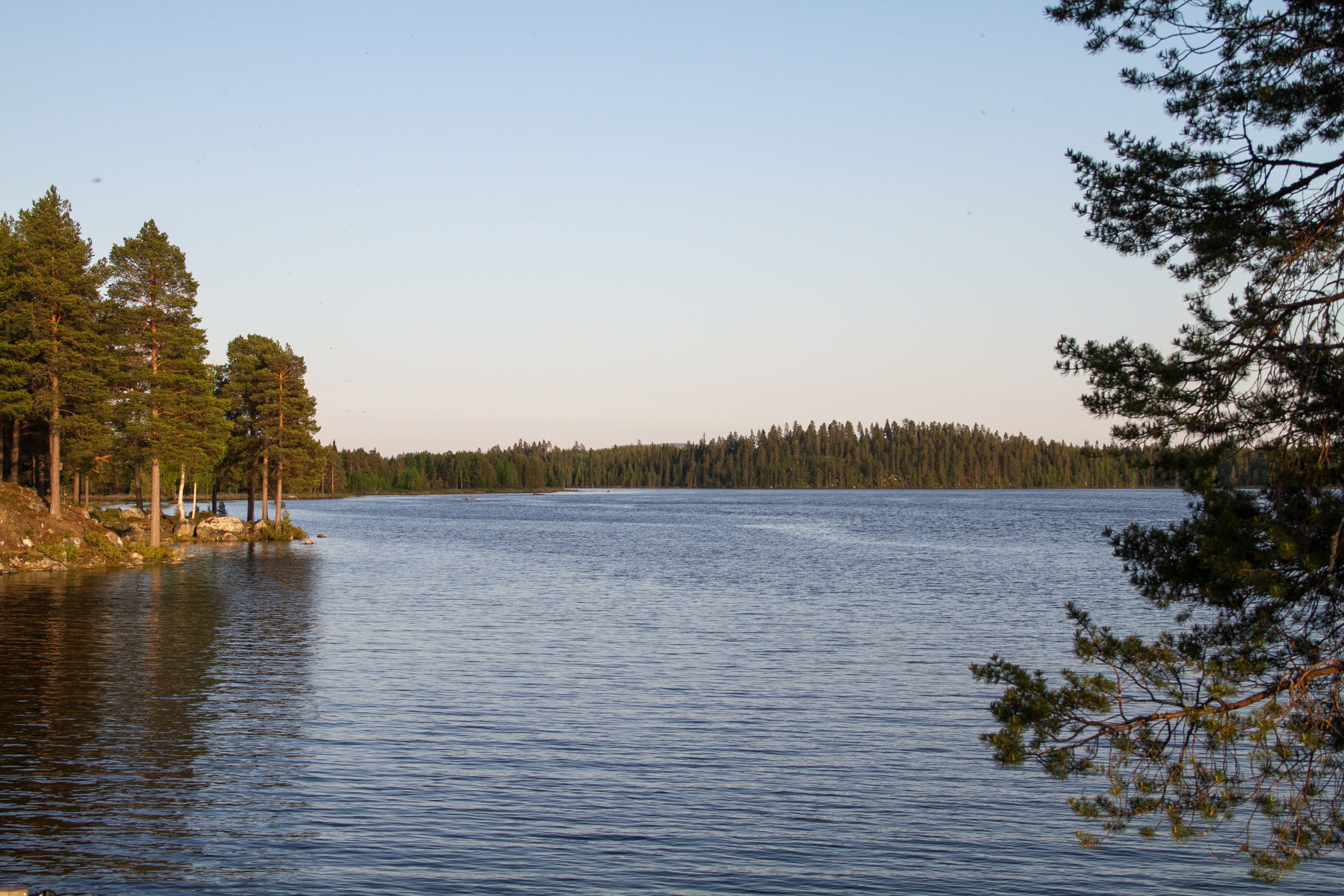 View of Blattnickselet, Sorsele Municipality, Västerbotten County, Sweden